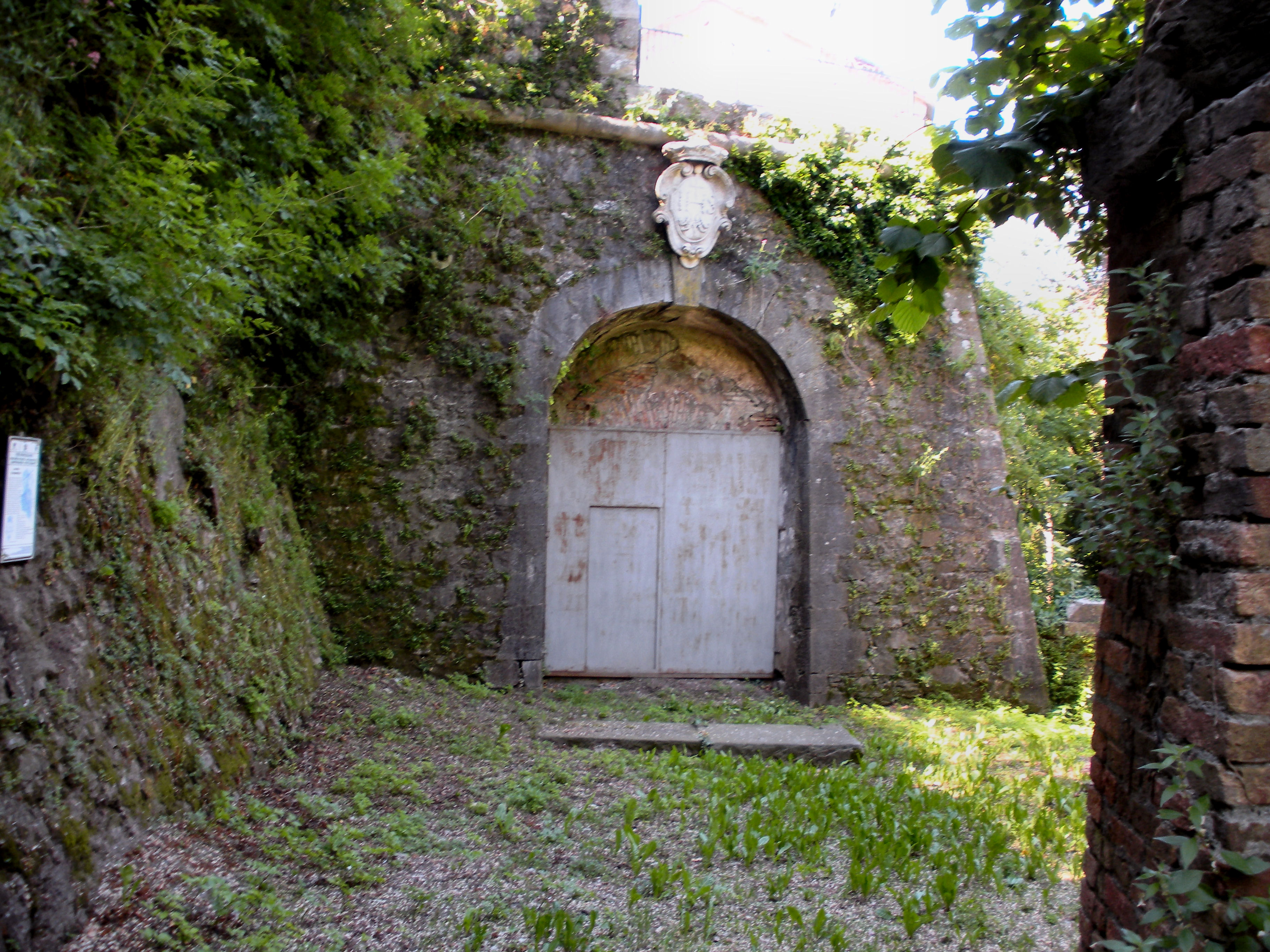 Genoa, Granarolo gate, set within the "New Walls"